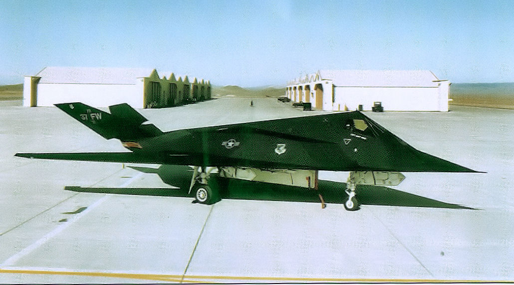 37th Fighter Wing Lockheed F-117A Nighthawk 84-0827 on the ramp at Tonopah TTR Airport, just after its transfer from the 4450th TG